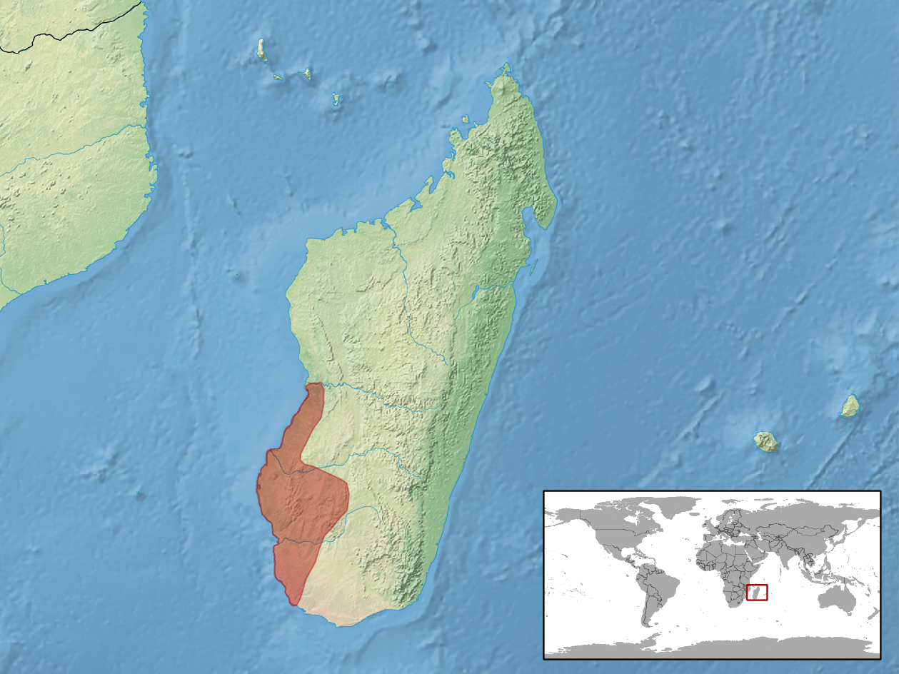 geographic distribution of Voeltzkowia rubrocaudata